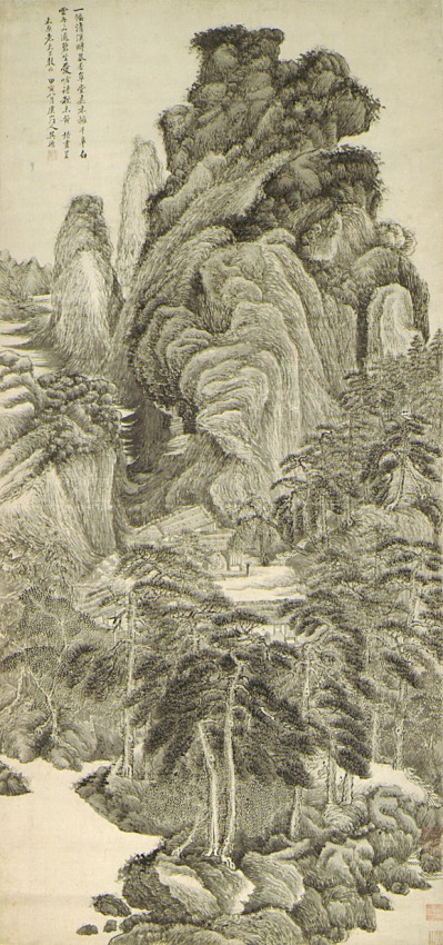 China, Chinese, Qing dynasty, 1674 Paintings Hanging scroll, ink on paper Los Angeles County Fund (56.18) Chinese Art